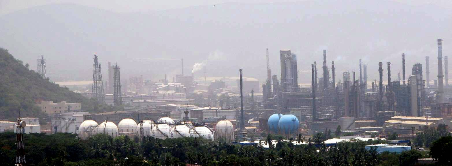 Industries at Vizag